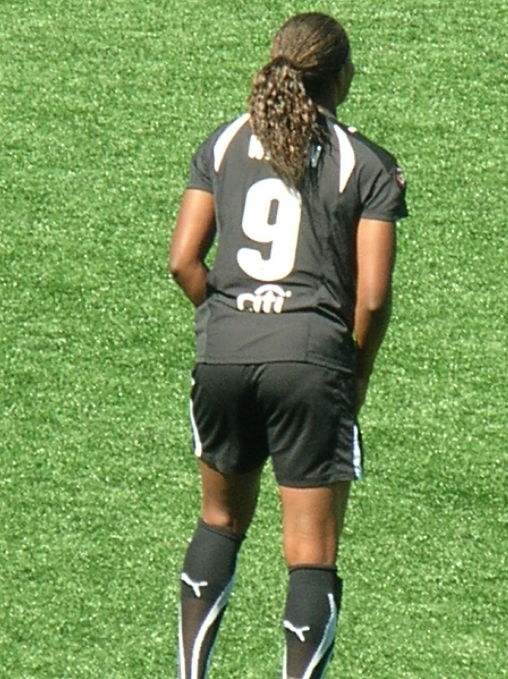 FC Gold Pride forward Kandace Wilson at the 2010 WPS Championship at Pioneer Stadium in Hayward against the Philadelphia Independence. The Gold Pride won 4-0.